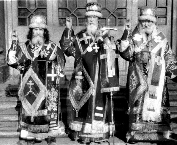 Old Believer Bishops of the Russian Orthodox Old-ritualist Church, standing before the Pokrov Chathedral at the Rogozhsky Village in Moscow